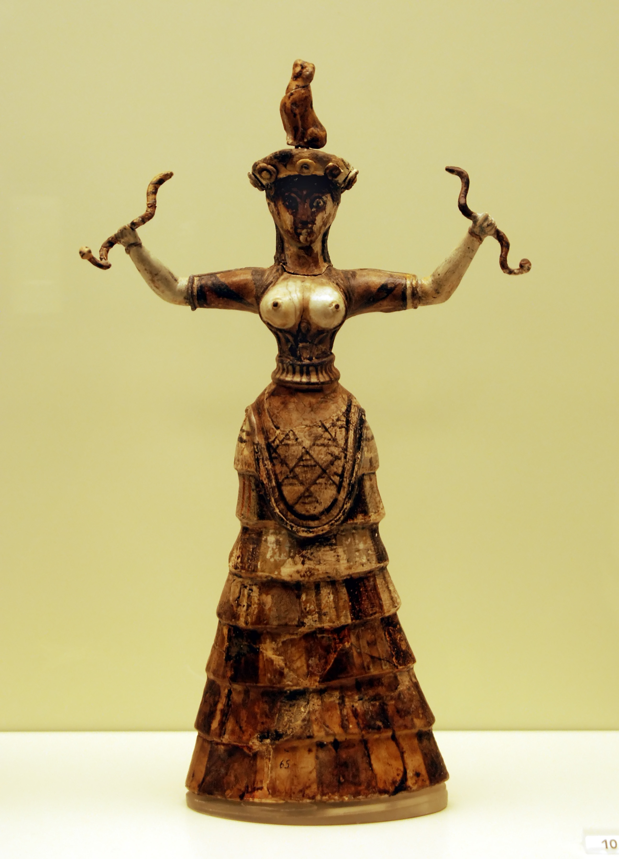 Faience figurines of the Snake Goddess. The goddess, or priestess, is depicted with exposed breasts and wearing a rich garment. Her bared breasts suggest her capacity as fertility goddess.(An explanation of the reconstruction of this partial statue can be found in C.W. Ceram's 1958 book, The March of Archaeology. The photo of this statue was published by all the medias of countries after the statuette was discovered-(Arthur Evans of the Knossos diggings). The figure on her head is only one possibility.) The snakes and the feline on her head are an allusion to her dominion over nature. Knossos.New-Palace period (1600 BC)